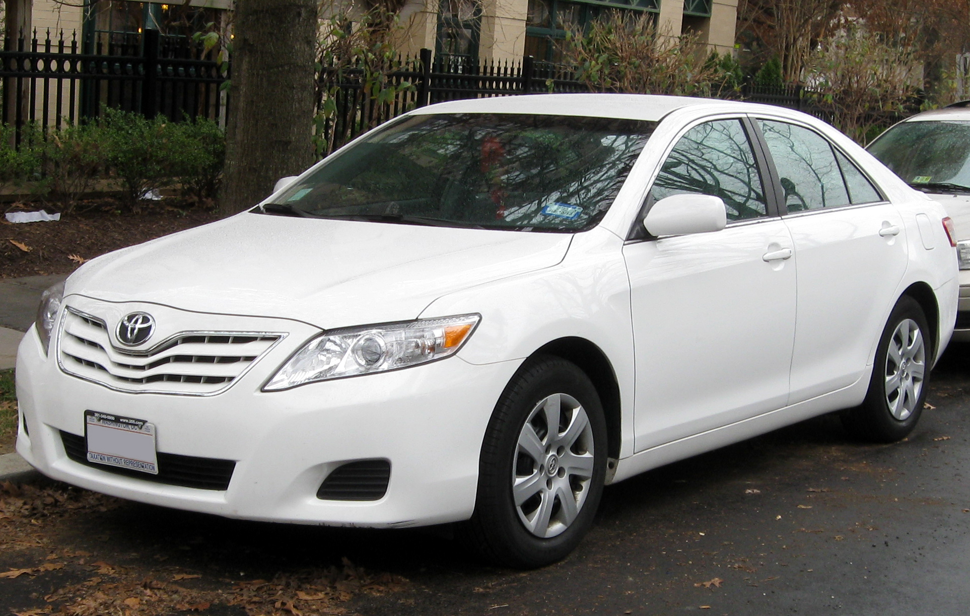 2010-2011 Toyota Camry photographed in Washington, D.C., USA.